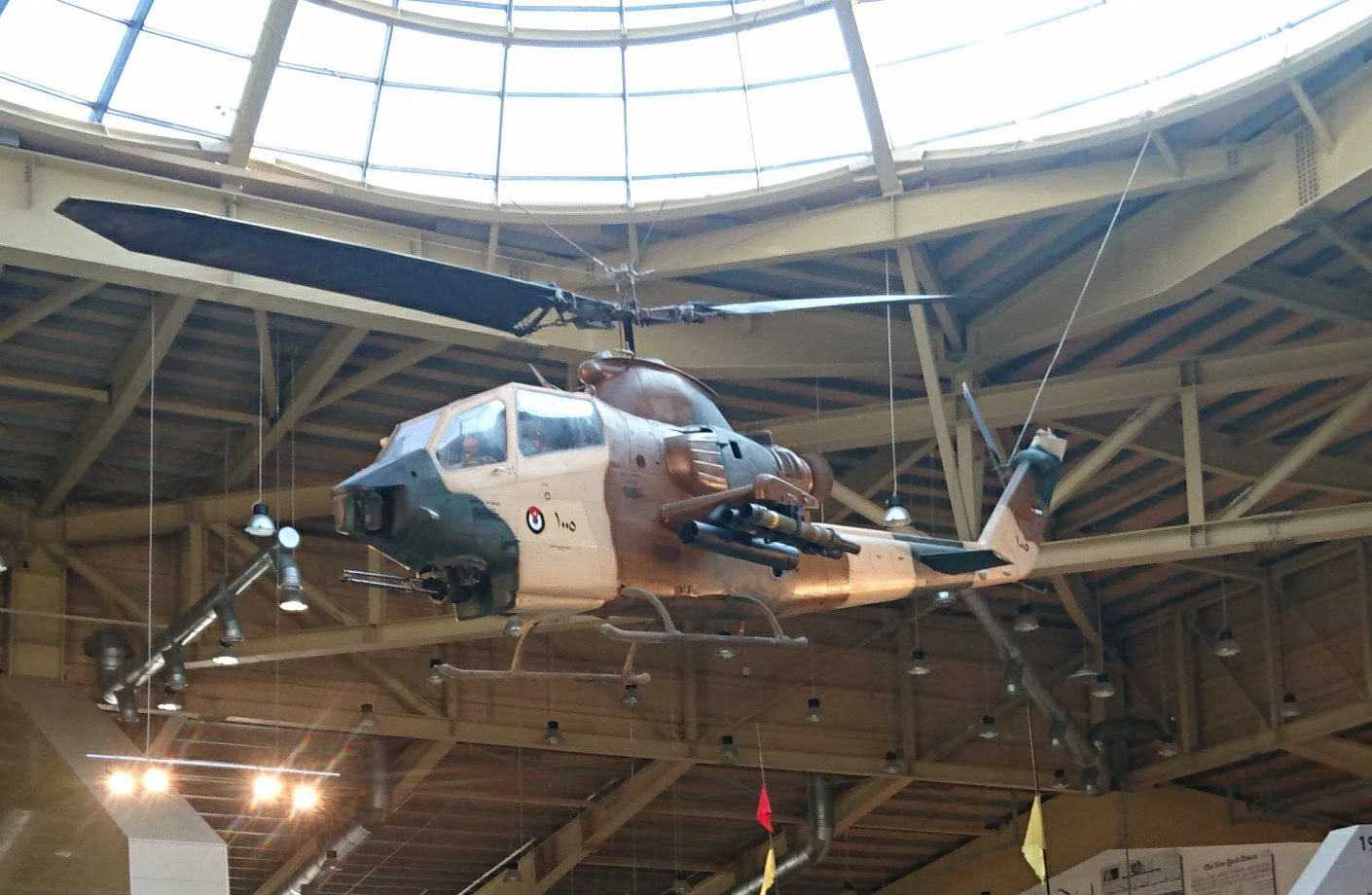 A Cobra attack helicopter dangling from sky-light at Royal Tank Museum in Amman, Jordan.